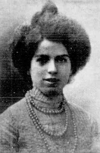 Edvige Vaccari, a young Italian opera singer. Her hair is very full and fastened in a topknot. She wears a high-necked lace blouse and a long strand of pearls or beads.